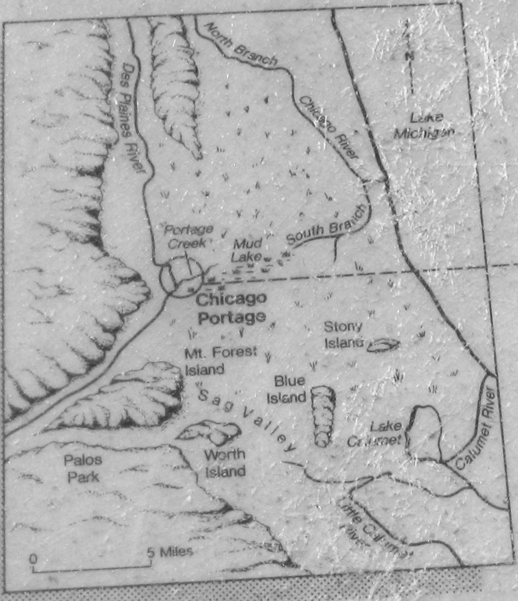 Map of the Chicago Portage, showing Mud Lake. Photograph of a sign at Chicago Portage National Historic Site